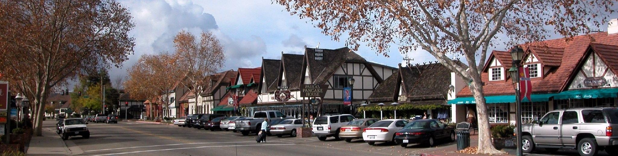 Solvang, California. Street view.